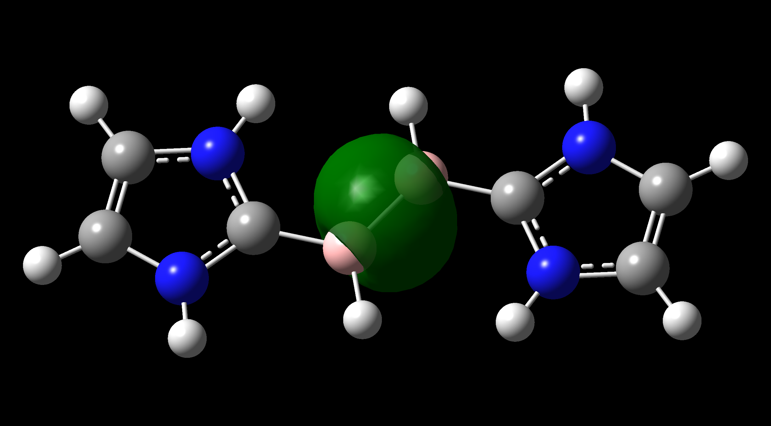 BB sigma NBO